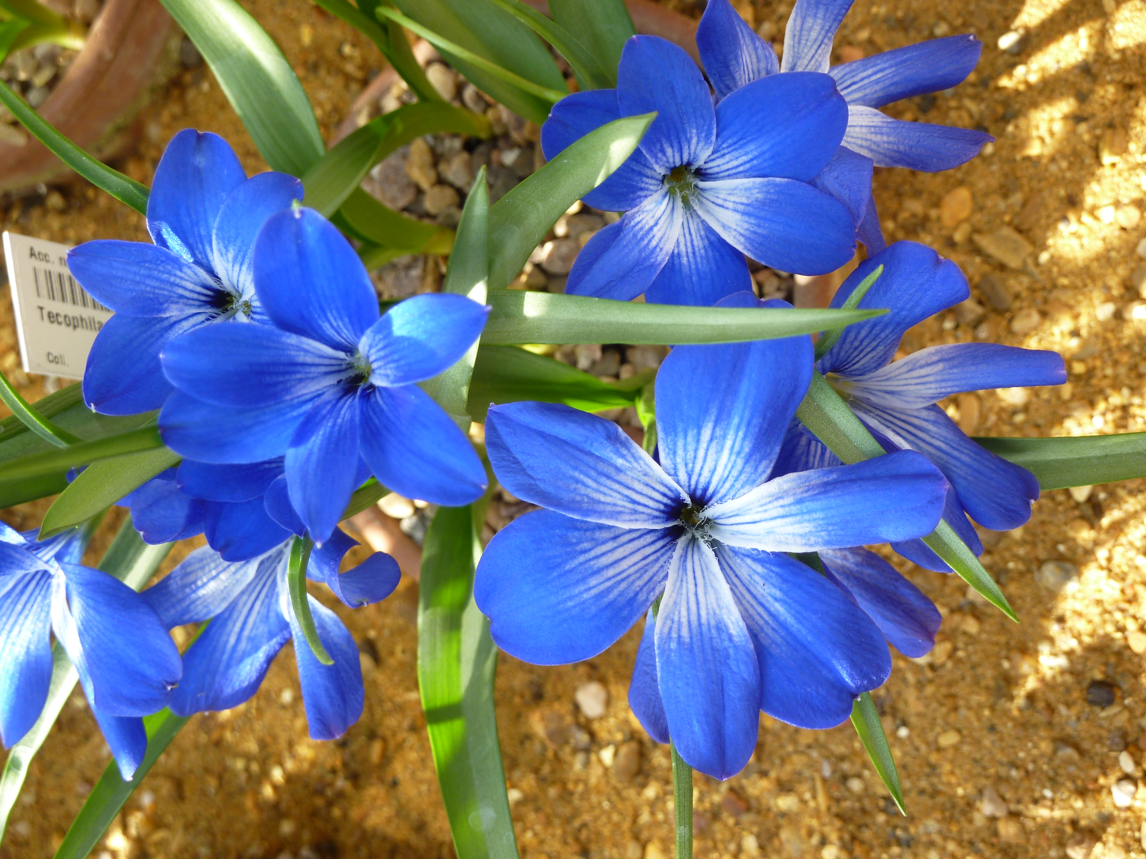 Taken in the Cambridge University Botanic Garden.